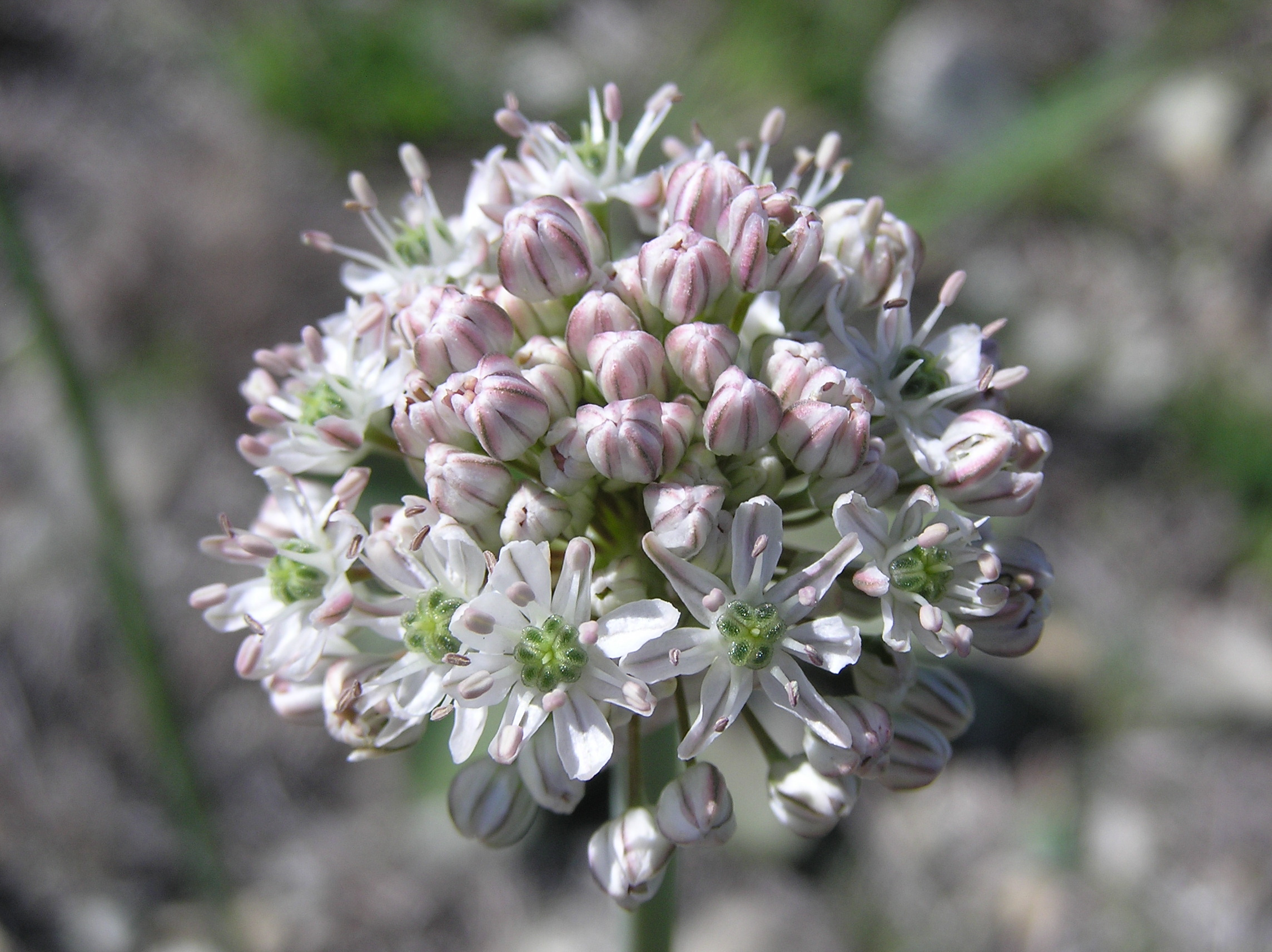 Allium tulipifolium (Ledeb.) inflorescence. Habitat: dry rocky slope near a hilltop. Vicinity of Saratov city, Russia.